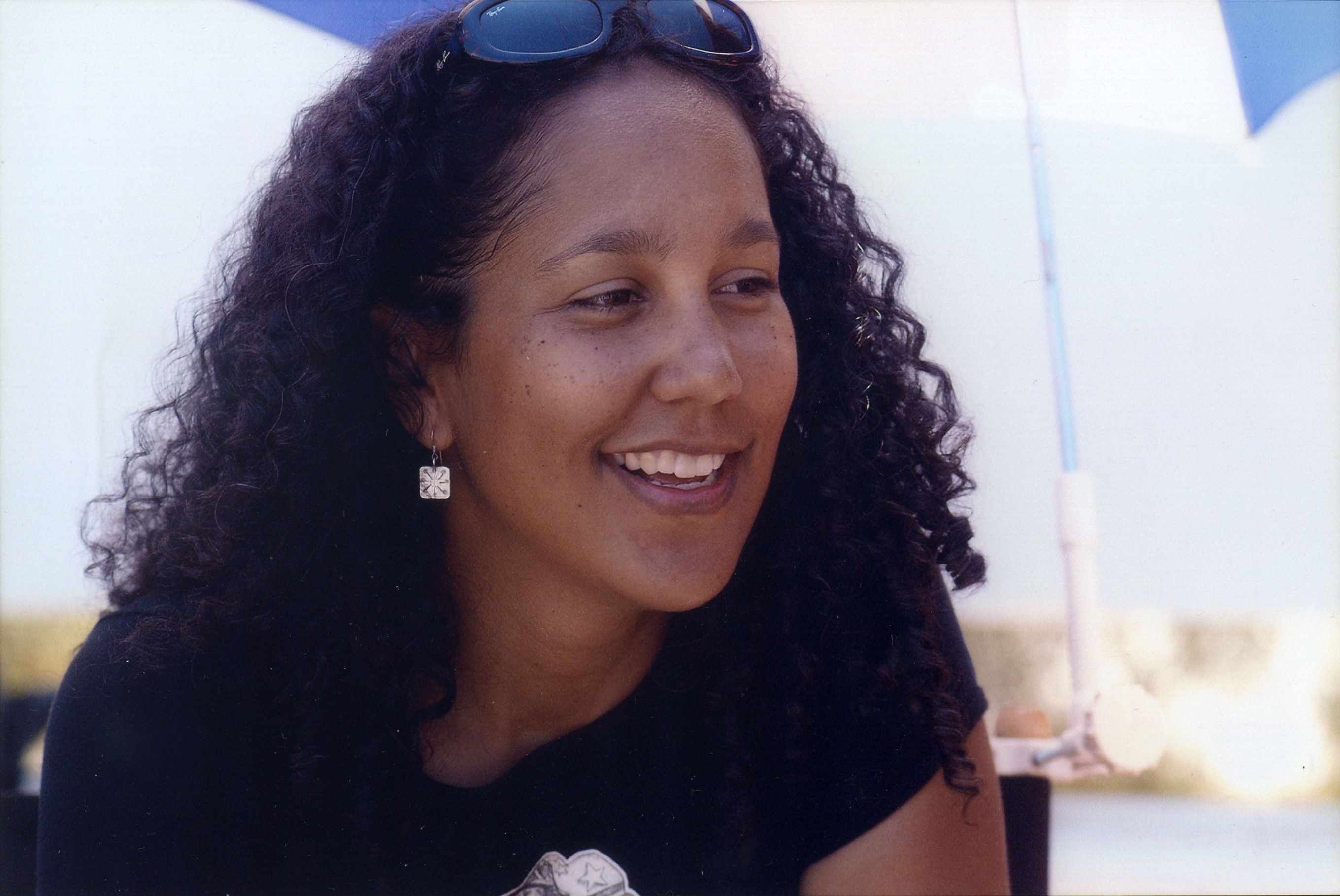 Photograph of American director and writer Gina Prince-Bythewood